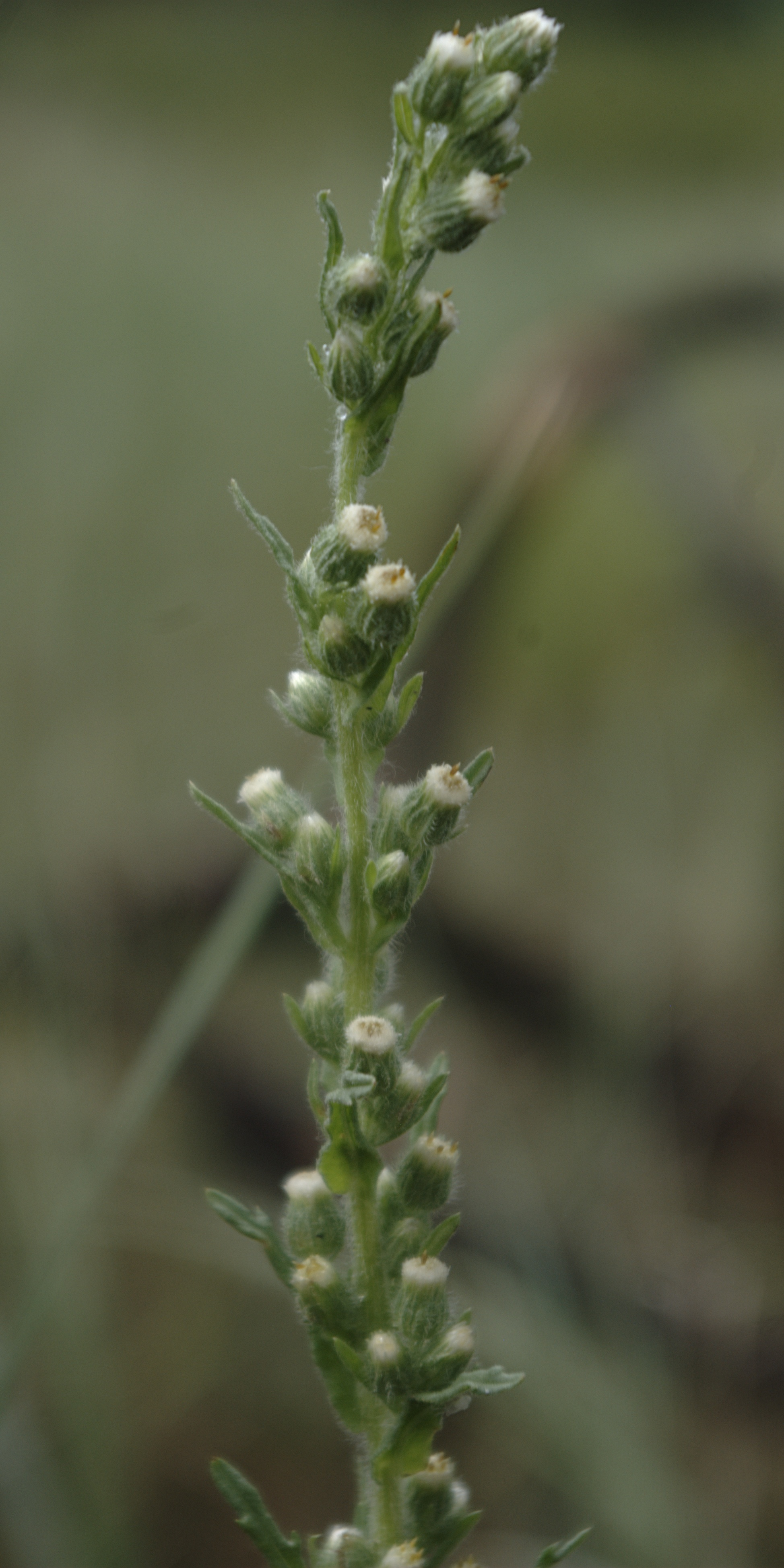 Inflorescences of Laënnecia coulteri, Coulter's horseweed, Apache Springs Trail, Bandelier National Monument, New Mexico. Same plant as File:Laennecia coulteri habitus.jpg. Thanks to Chick Keller at NMPLANTS-L for ID.